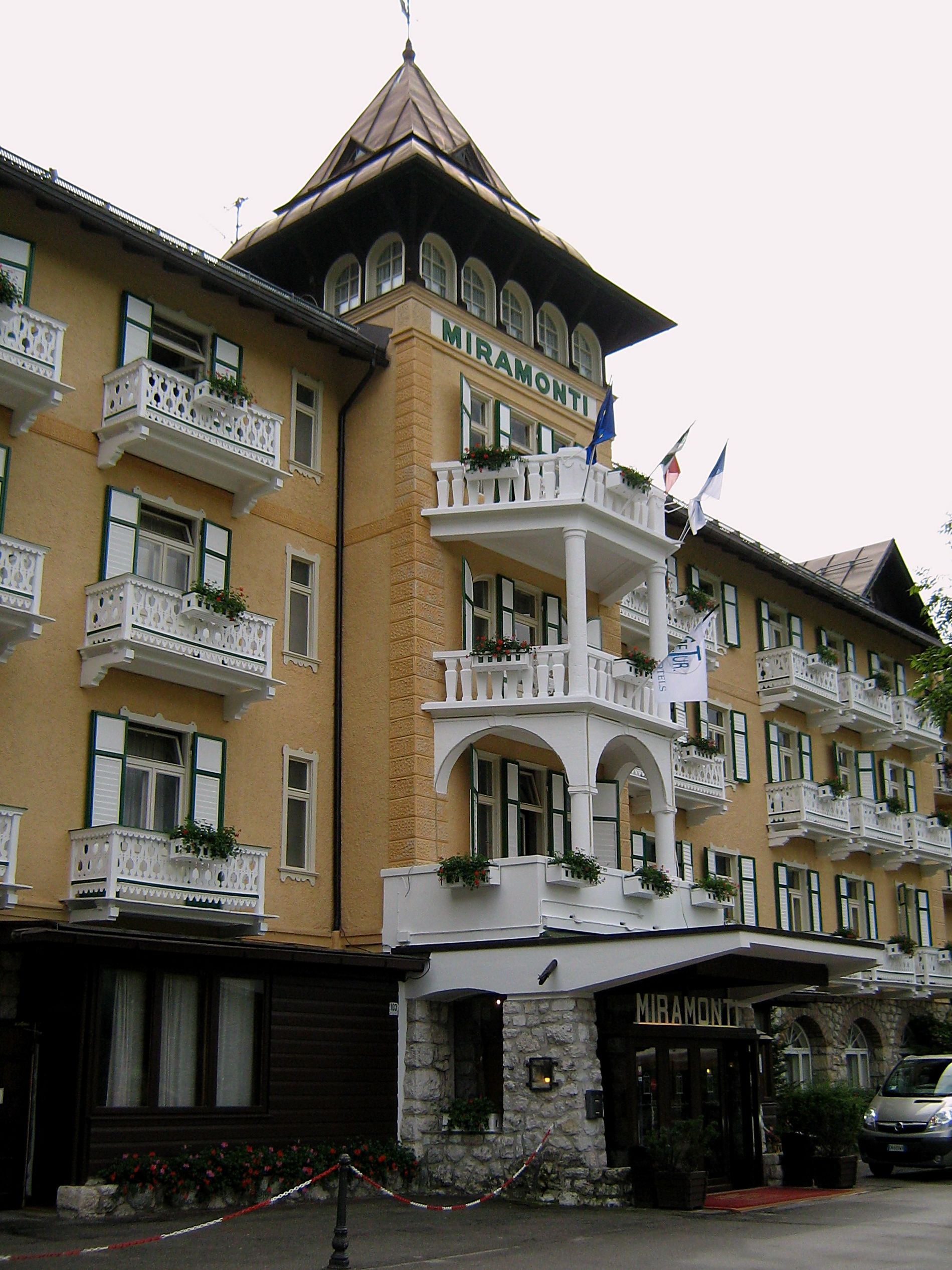 The famous (from James Bond-film a.o.) Hotel Miramonti in Cortina d'Ampresso in the Dolomites, Italiy. August 9, 2012.